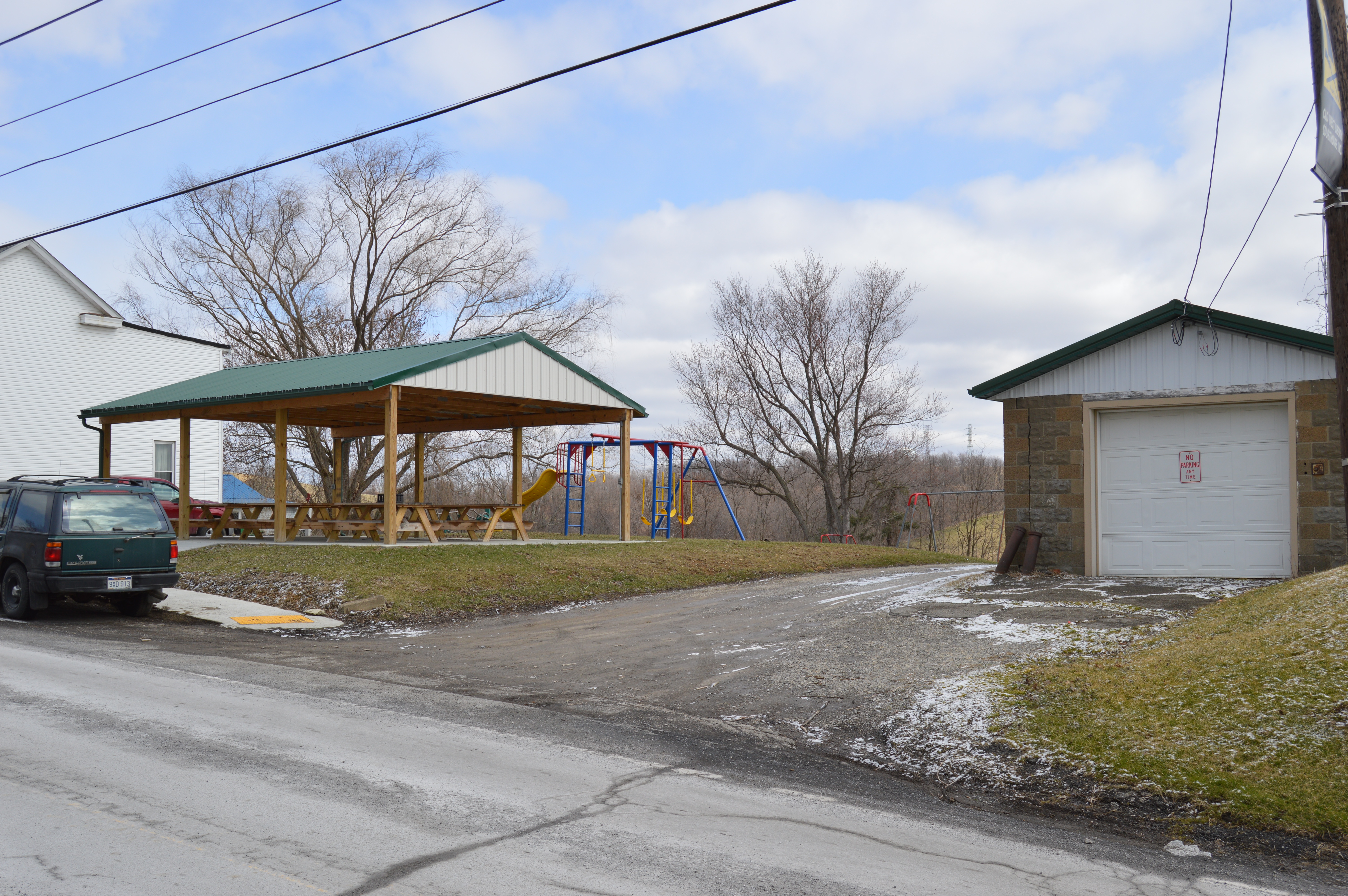 A small park along Main Street (West Virginia Route 88) on the eastern side of West Liberty, West Virginia, United States. This was formerly the site of the West Liberty Presbyterian Church, which was listed on the National Register of Historic Places in 1980; although removed from the site, it has not yet been removed from the Register.